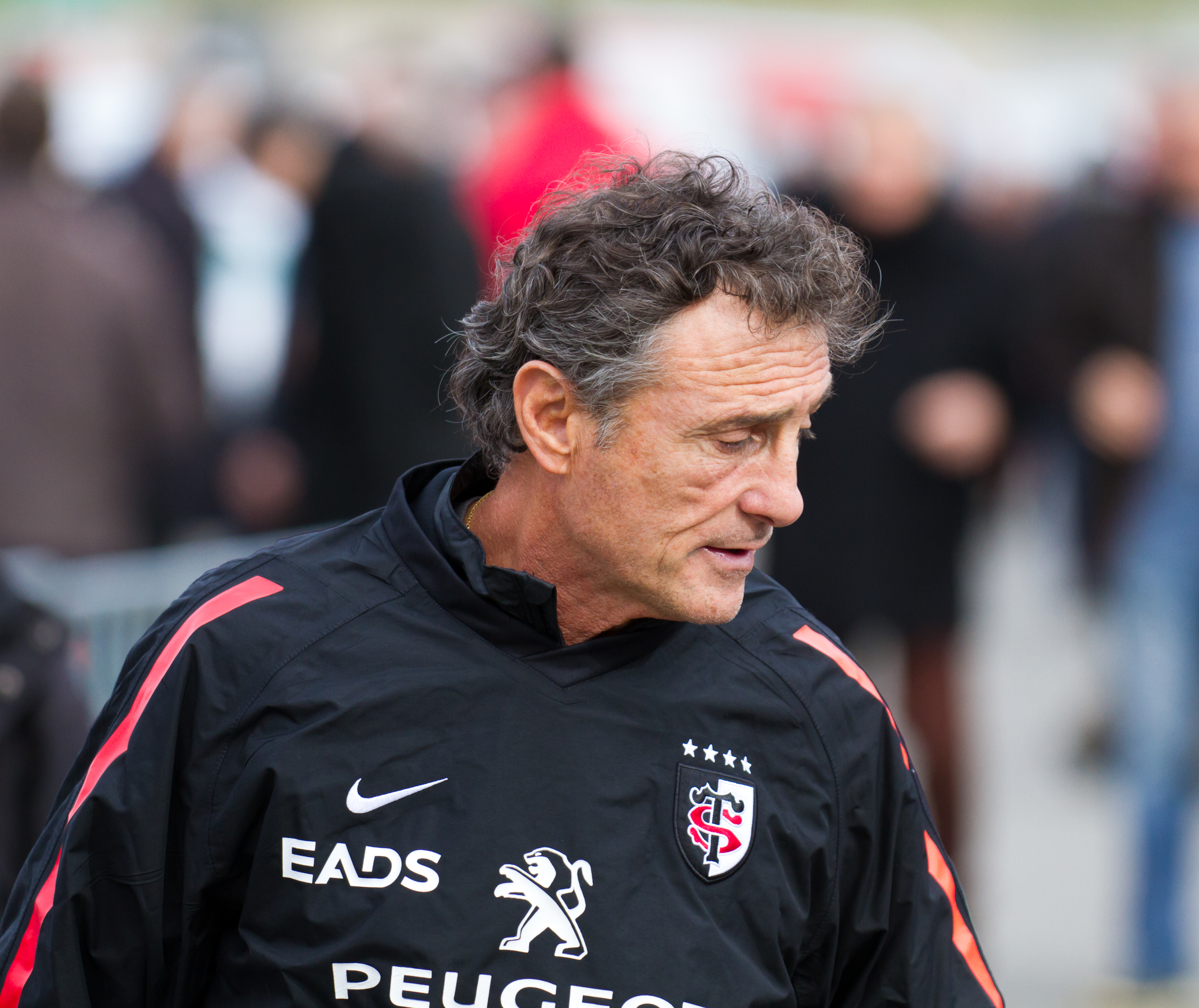 Top 14 — 7 January 2012, Stade Ernest-Wallon. Match between: Stade toulousain — Lyon olympique universitaire